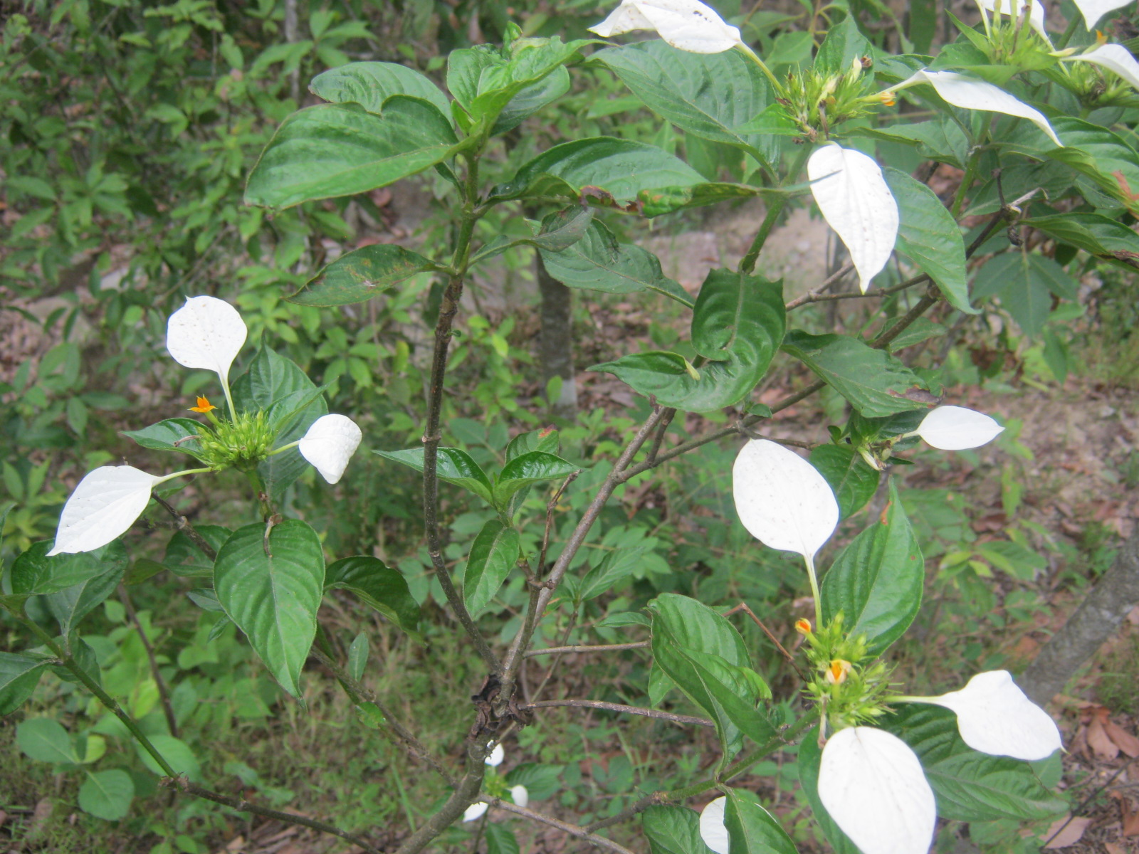 A shrub found in Nepal.